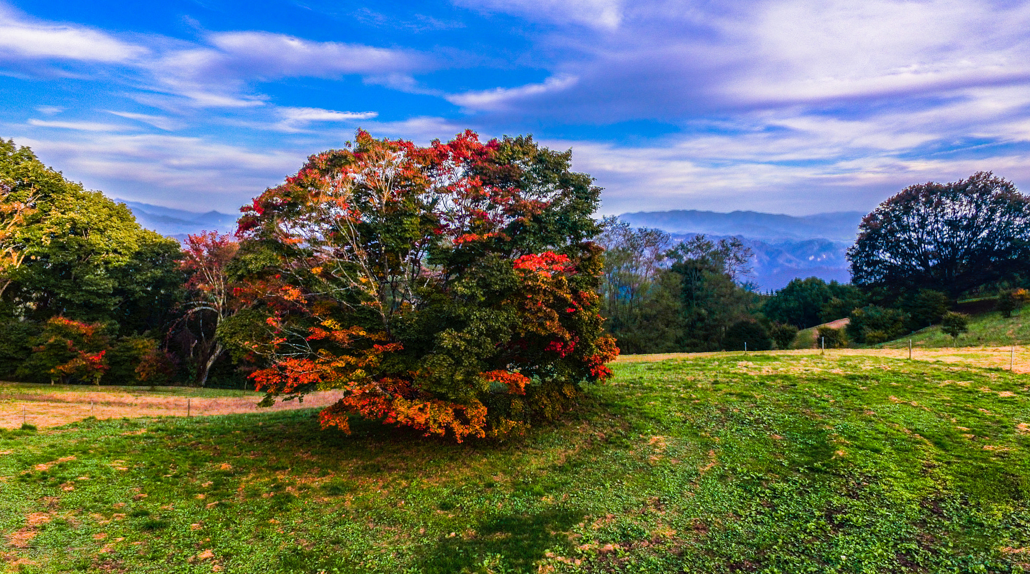 500px provided description: ?????????????? Seven colors big maple in Ikeda-cho, Kitaazumi-gun, Nagano, Japan [#?? ,#Azumino ,#?? ,#Rainbow ,#Japan ,#Nagano ,#Maple ,#DJI ,#??? ,#??? ,#T.Umikawa ,#???? ,#Phantom4 ,#???? ,#ikedamachi]